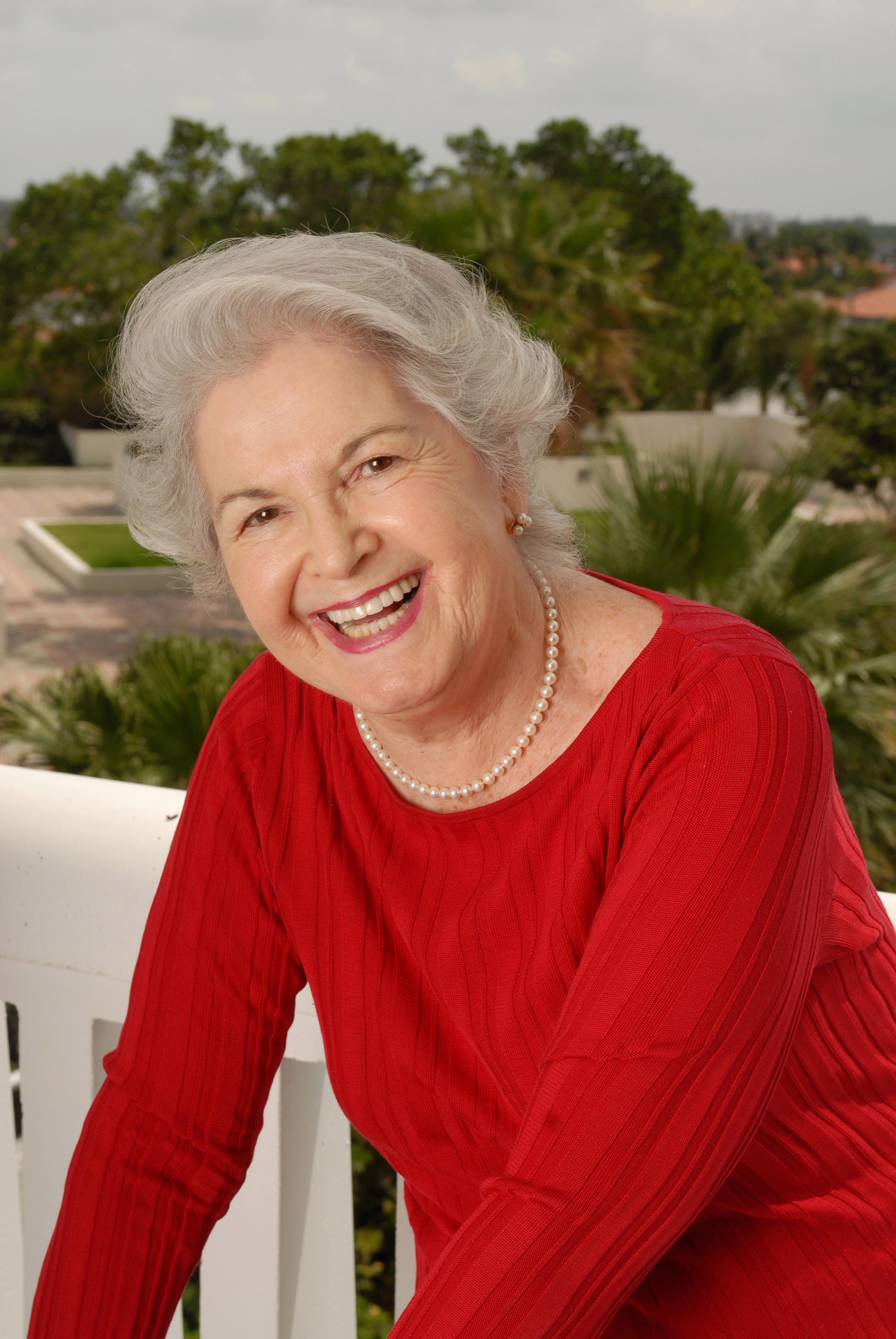 Portrait of Aranka Siegal